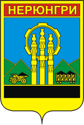 Neryungri (Yakutia), coat of arms (1984)